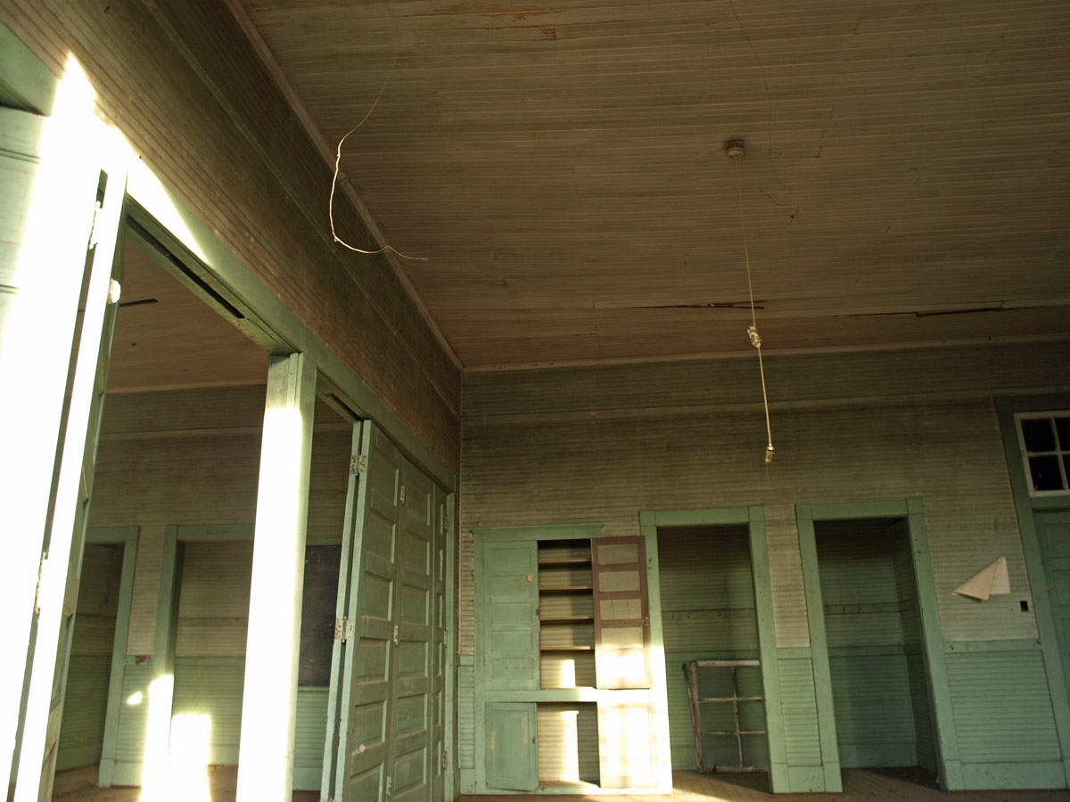 The Tankersley Rosenwald School in Hope Hull (near Montgomery), Alabama